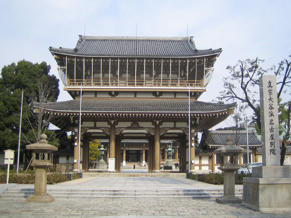 The branch of Higashi-Honganji Temple in Nagoya (東本願寺名古屋別院 Higashi-Honganji Nagoya Betsuin), located in Nagoya, Aichi, Japan